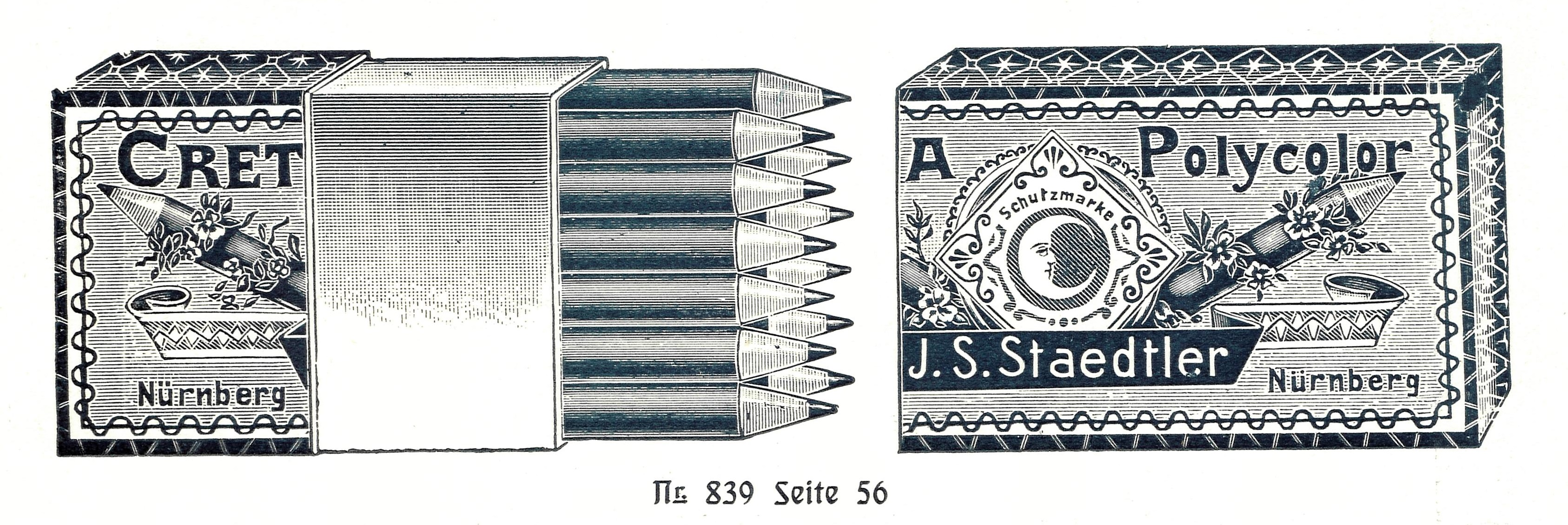 The image is clipped from the 1908 published illustrated price list of the pencil and crayon manufacturer J.S. Staedtler in Nuremberg. It shows 12 differend cryons of the first german consumer brand for crayons "creta polycolor", packed in a designed box. In the center of the box ist the "Half Moon", the trade mark of the company.